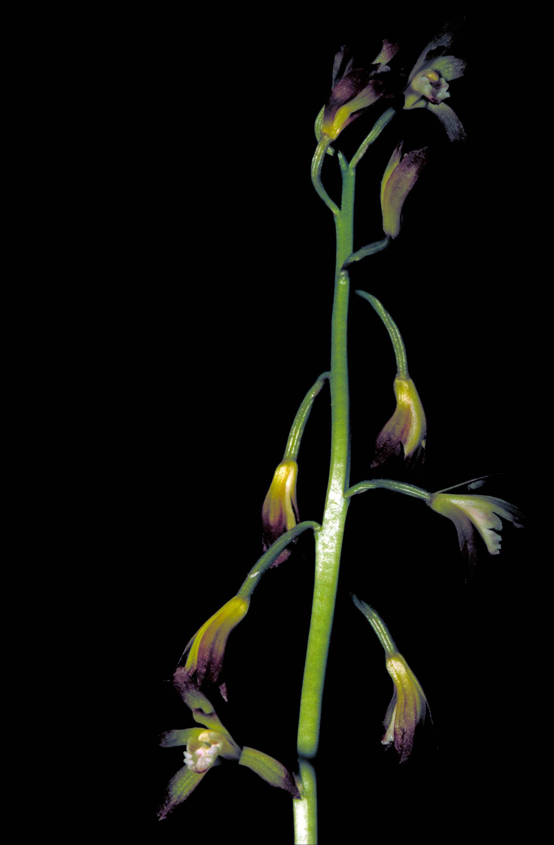 Image title: Putty root stem aplectrum hyemale with yellow and purple orchid blooms Image from Public domain images website